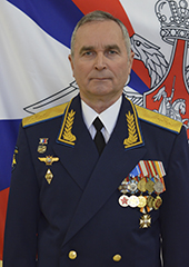 Sergey Baynetov